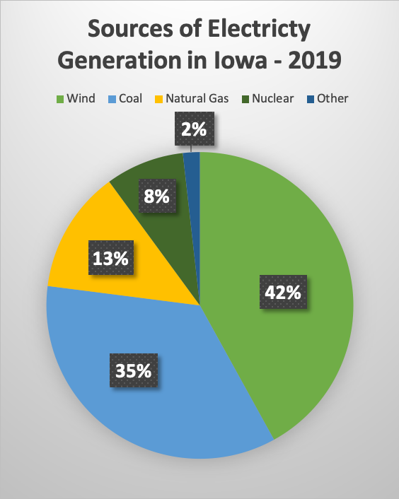 Pie chart depicting sources of electricity generation in Iowa in 2019